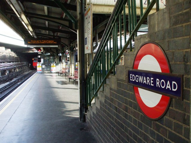 Edgware Road station, (D&C lines), NW1 Edgware Road station on the District, Circle and Hammersmith & City Lines.